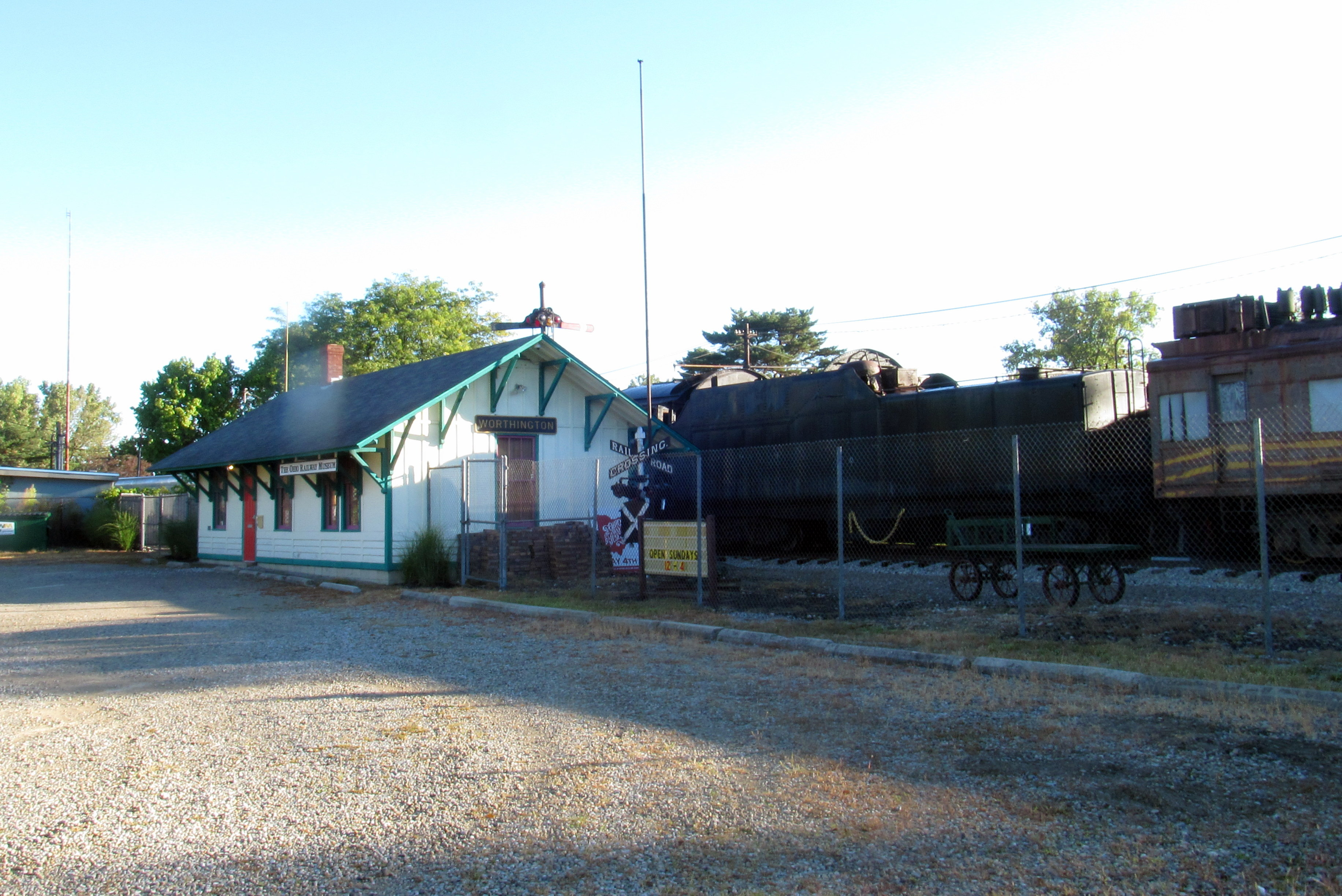 The former Worthington station at Ohio Railway Museum in September 2015